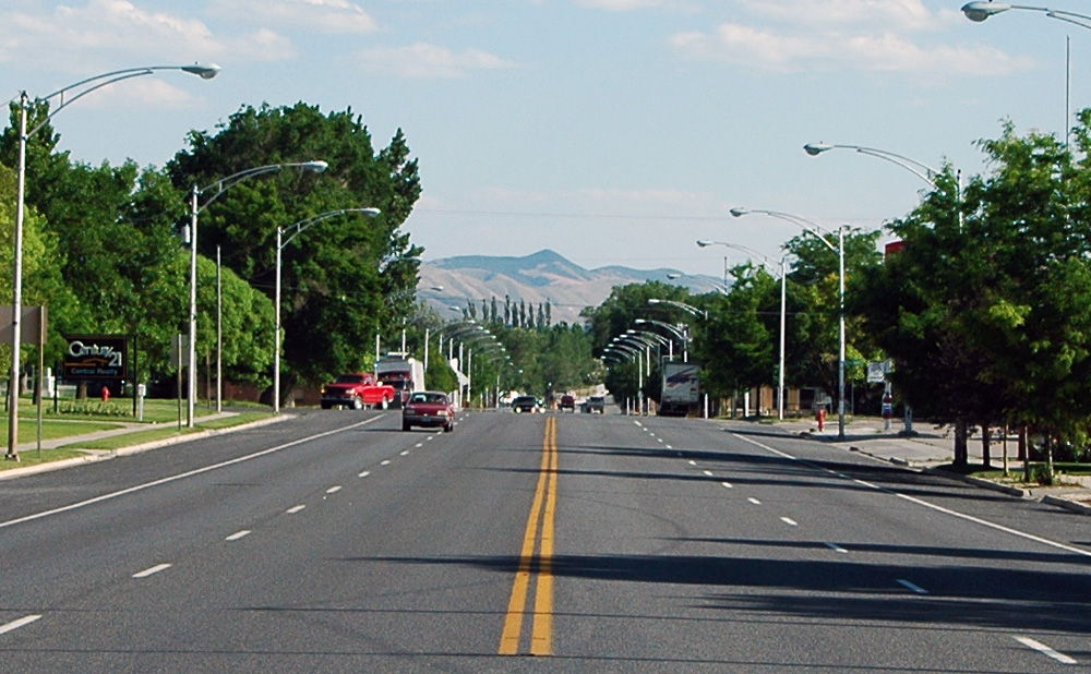 Main Street in Gunnison, Utah -- June 2005, Nikon D70, Cory Maylett